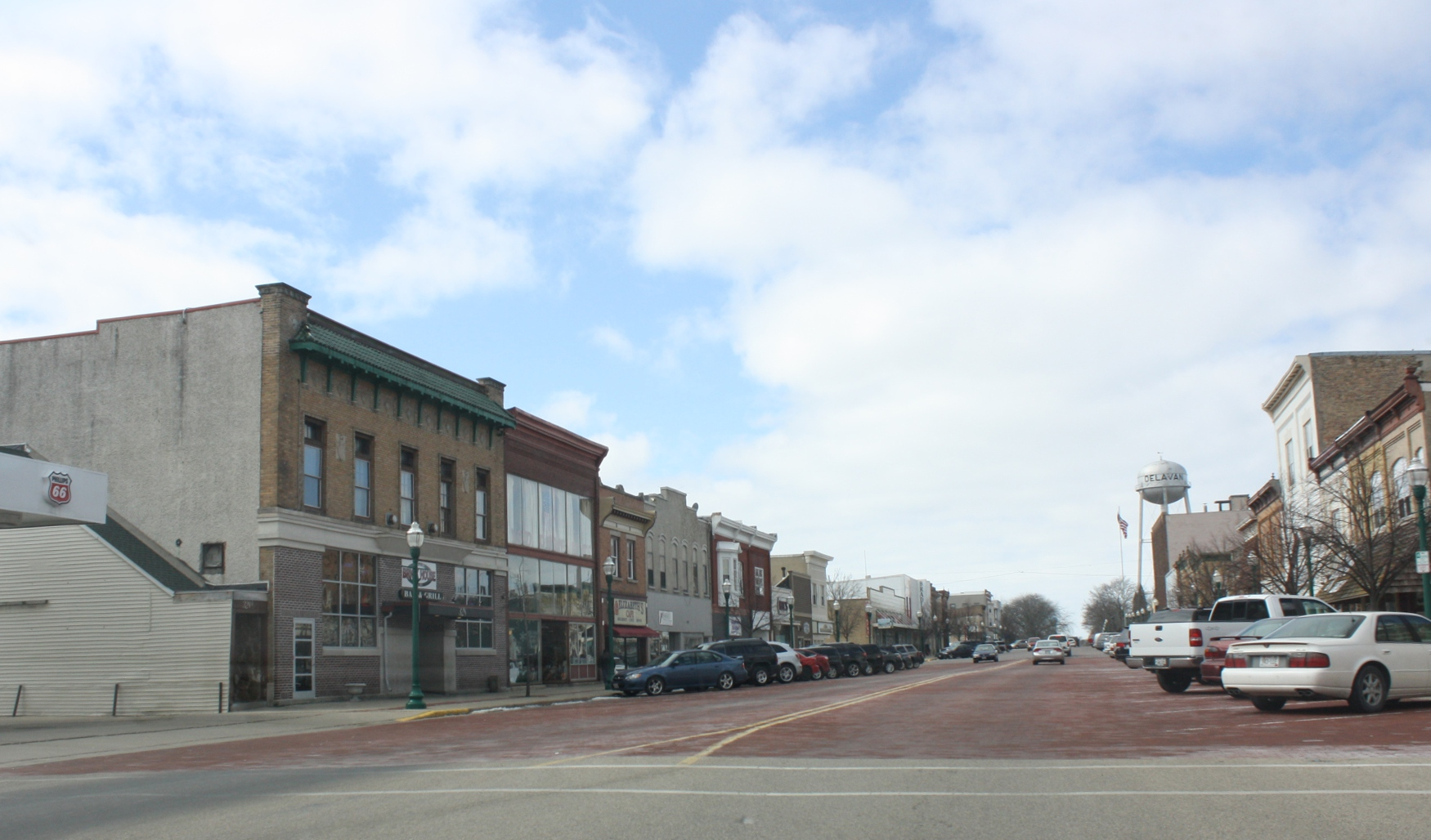 Downtown Delavan, Wisconsin on U.S. Route 14.